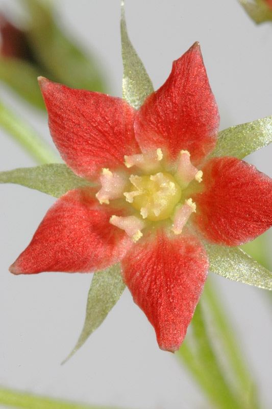 Close up of a lance-leaved sundew flower. Photographed by Brian Arthur and released under the GNU Free Documentation License. All remaining rights reserved